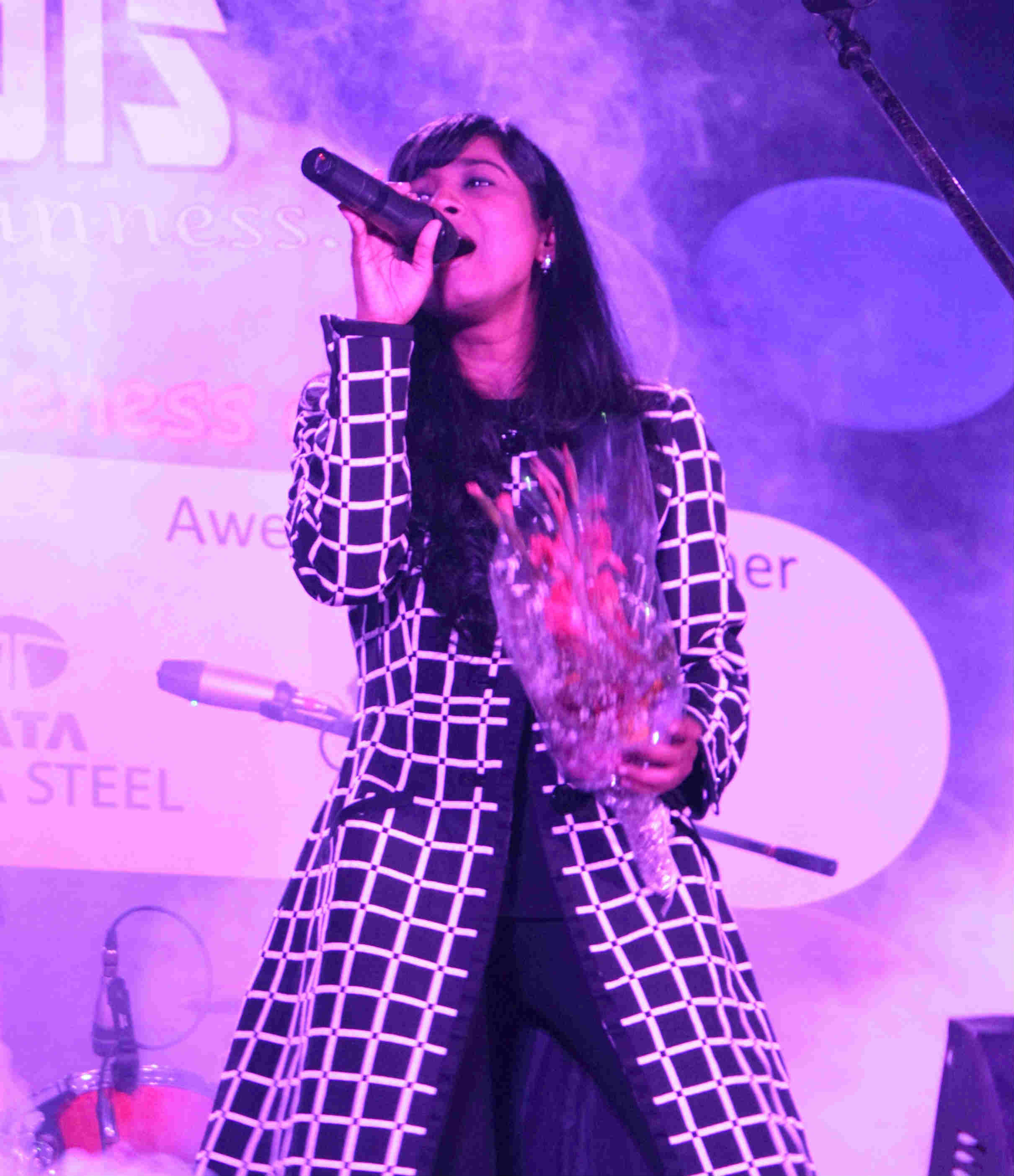 Shilpa Rao, performing at Wheels 2014